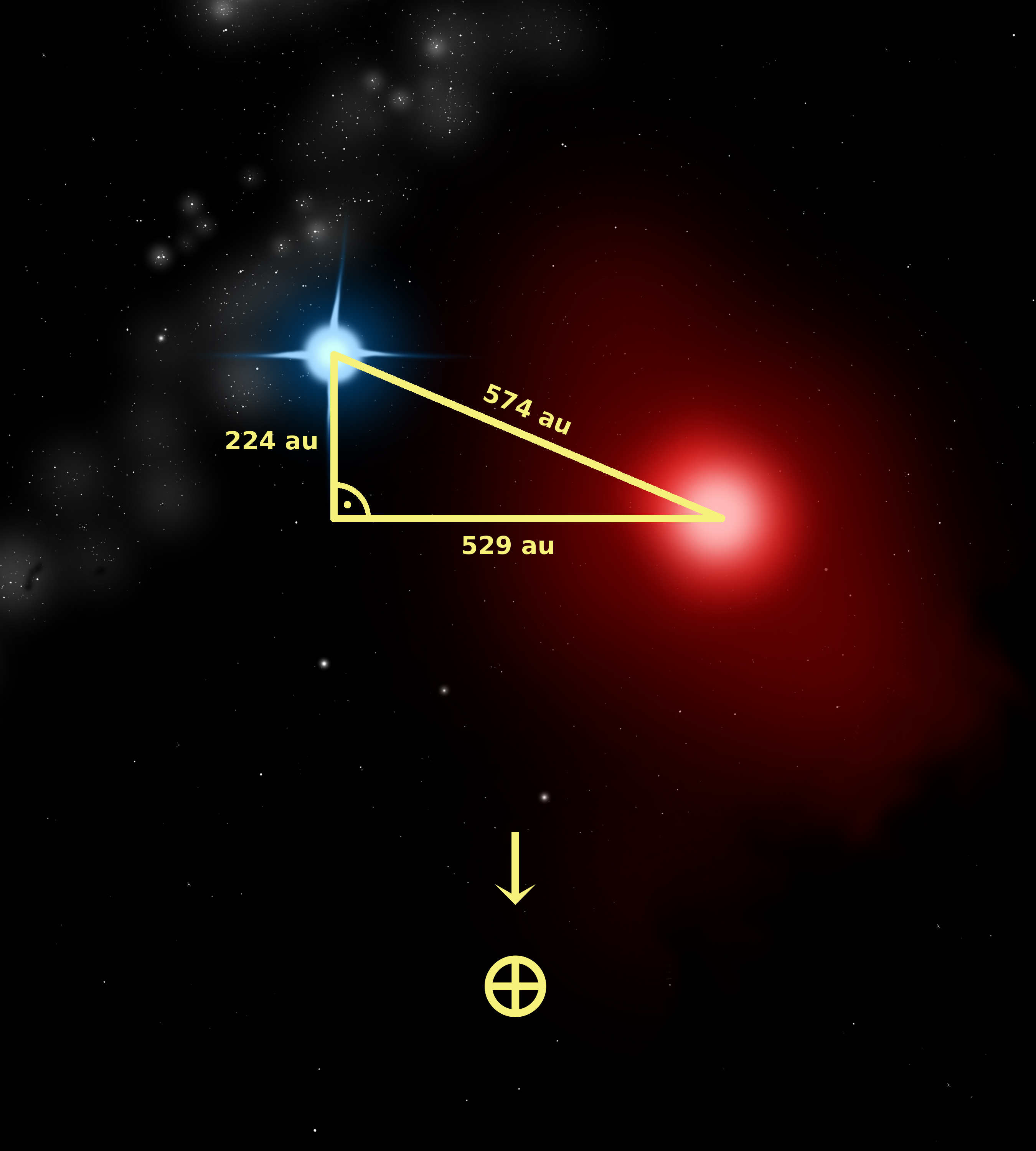 Relative positions of components of the Antares system